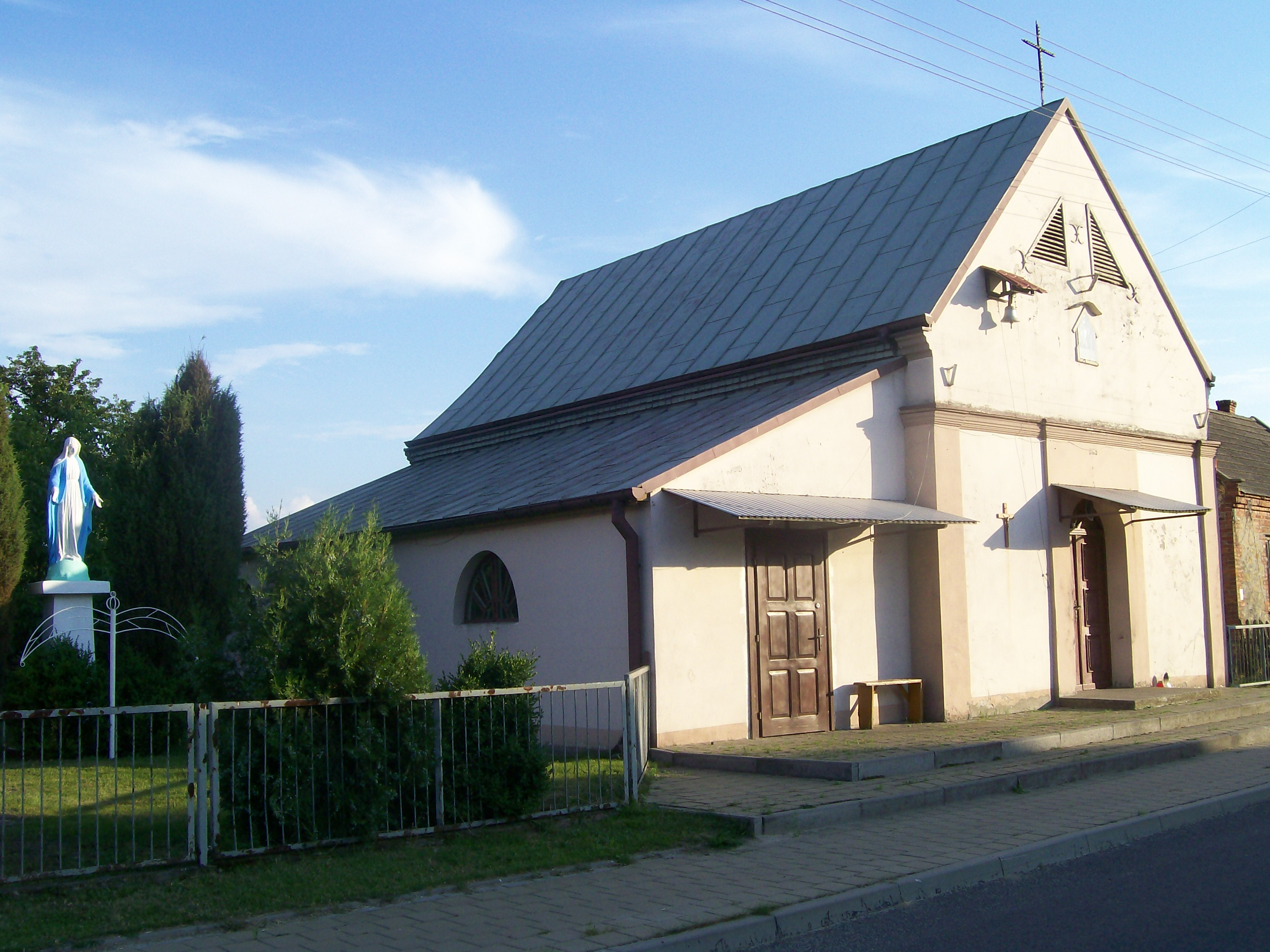 Saints Peter and Paul chapel in Sieniec, Poland